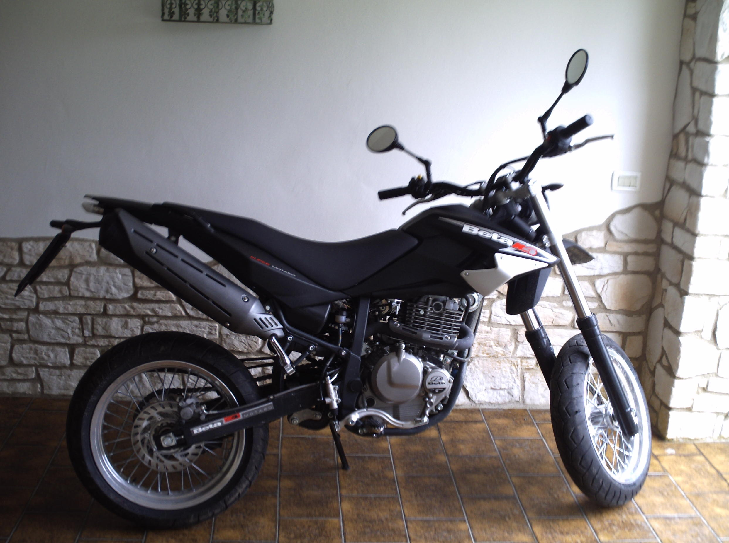 Picture of a Betamotor motorcycle, model M4